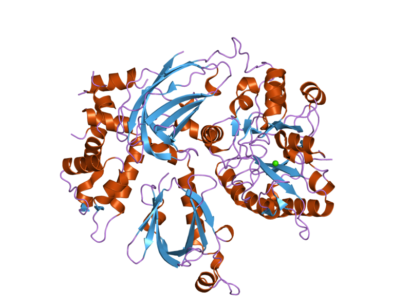 Cartoon representation of the molecular structure of protein registered with 2zkm code.